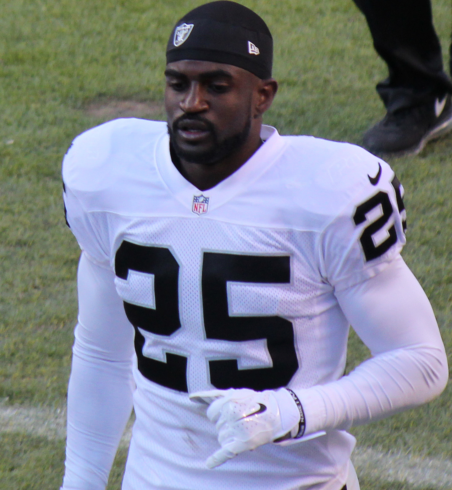 D. J. Hayden, a player on the National Football League.